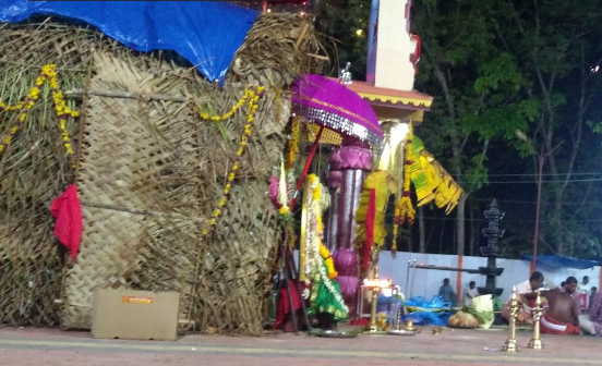 pachapanthal